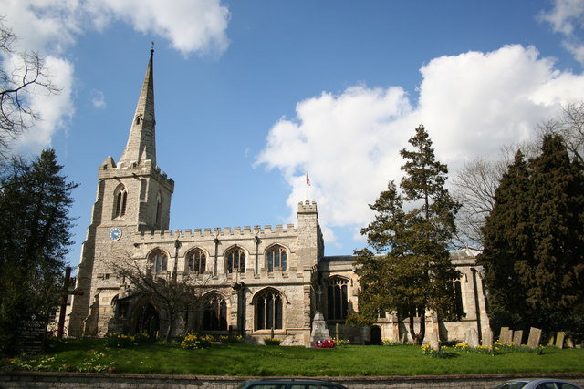 St Nicholas' parish church, Tuxford, Nottinghamshire, seen from the south